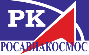 patch of the Russian Space Agency, abbreviated as RKA.